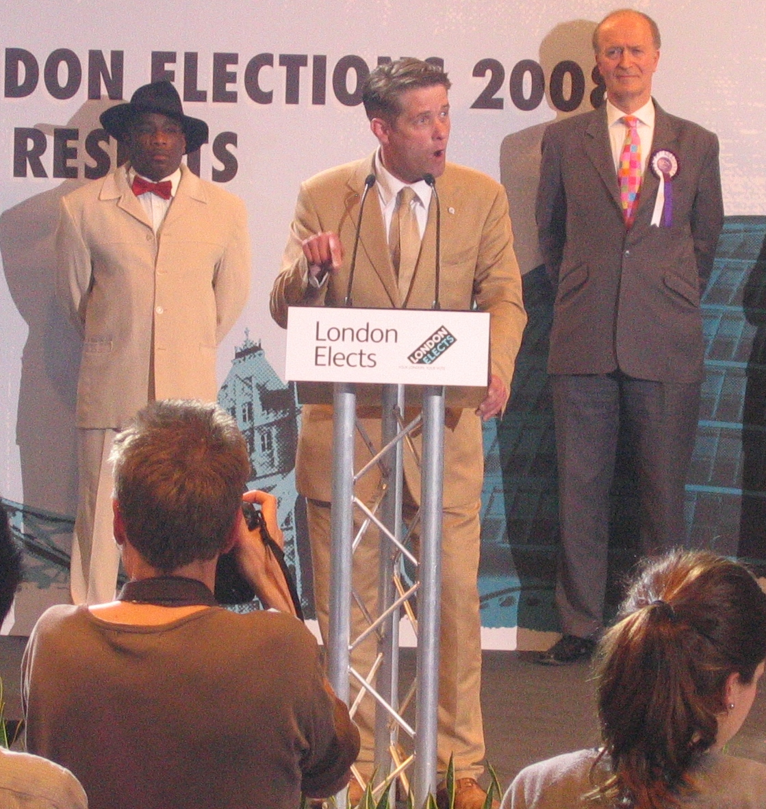 London Elections 2008, City Hall. Richard Barnbrook from the British National Party